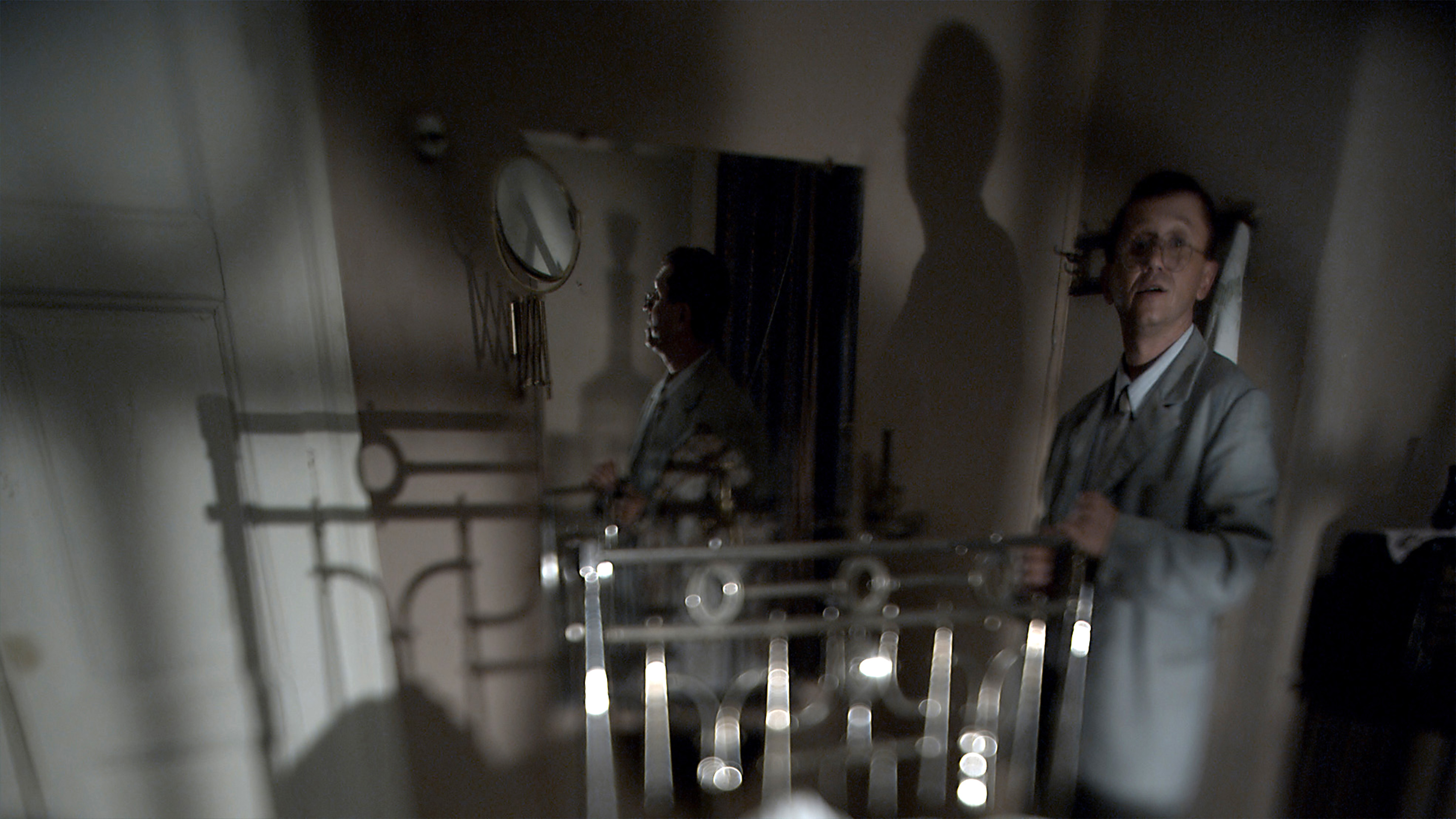 Delirium (film) still